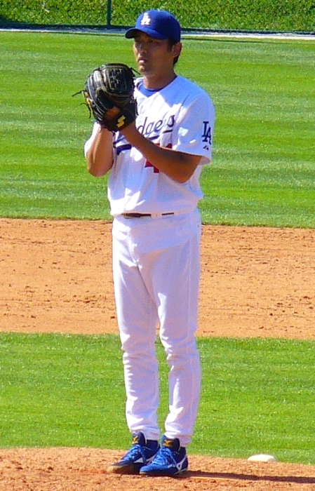 斎藤隆 / Takashi Saito 03:52, 19 July 2007 . . Metsfan7 . . 449×700 (301,708 bytes)